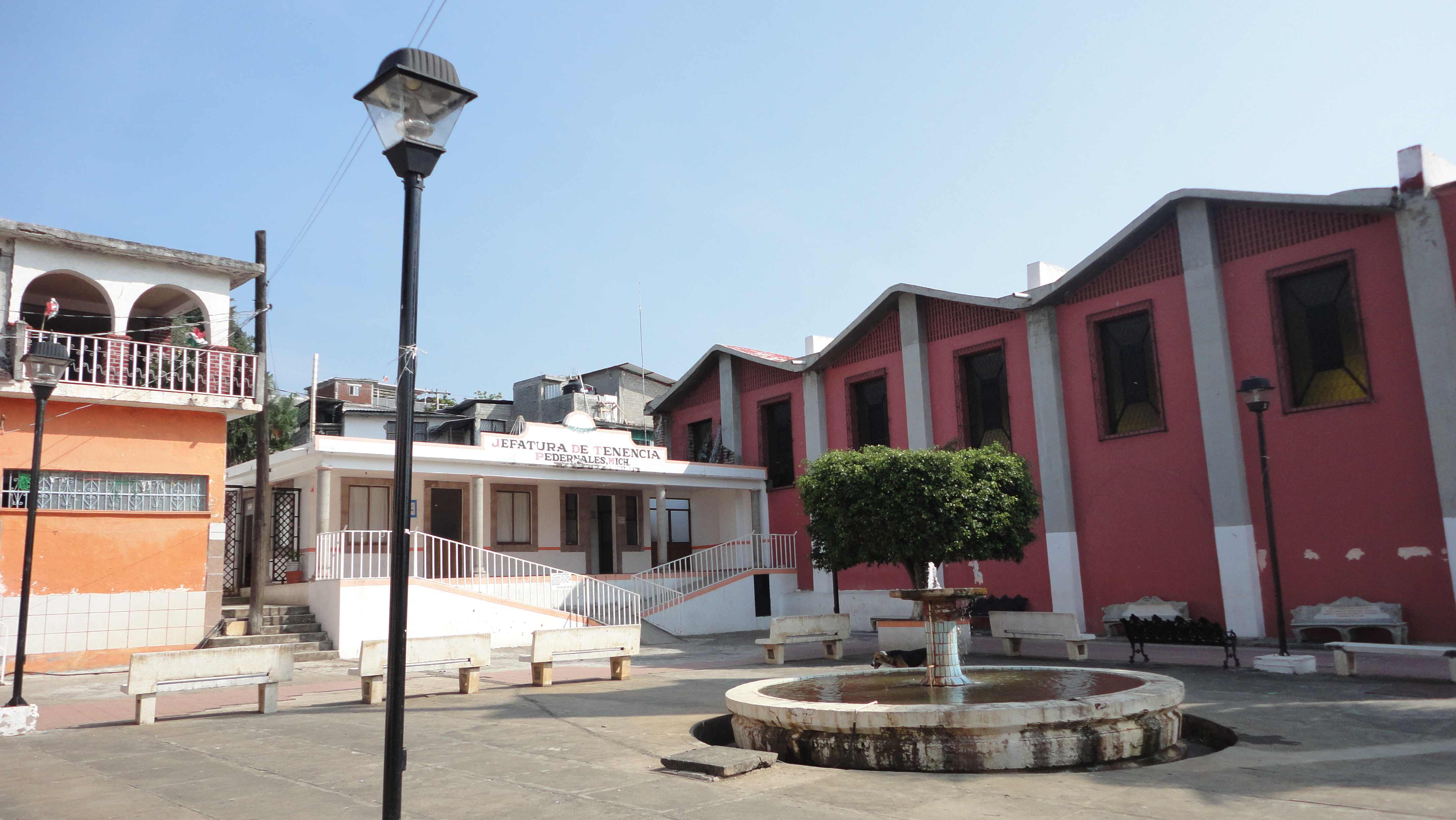 Plaza Acueducto, toma este nombre porque por ella pasa un acueducto blanco